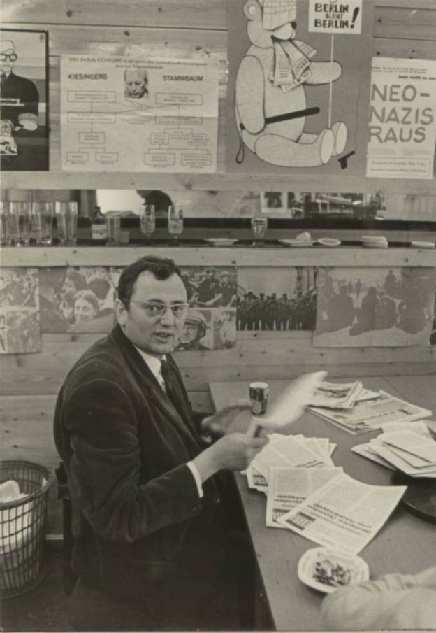 barthel in ed magazine buero